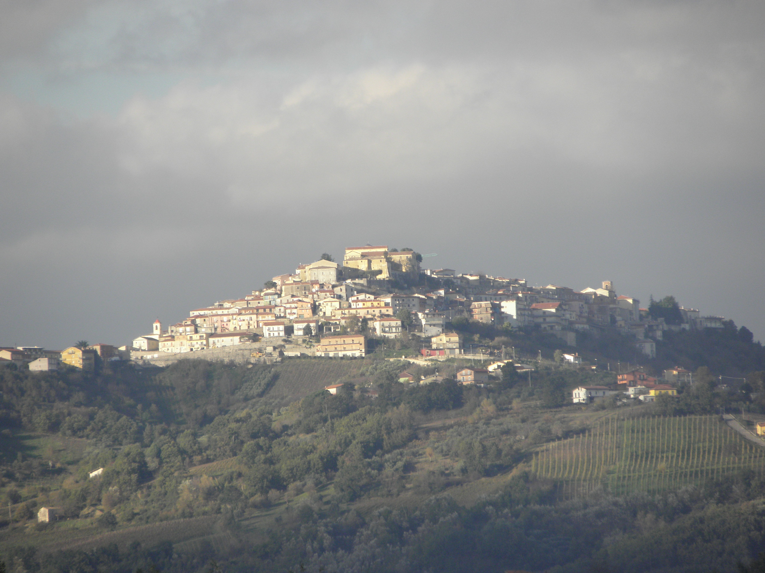 View of Montefusco